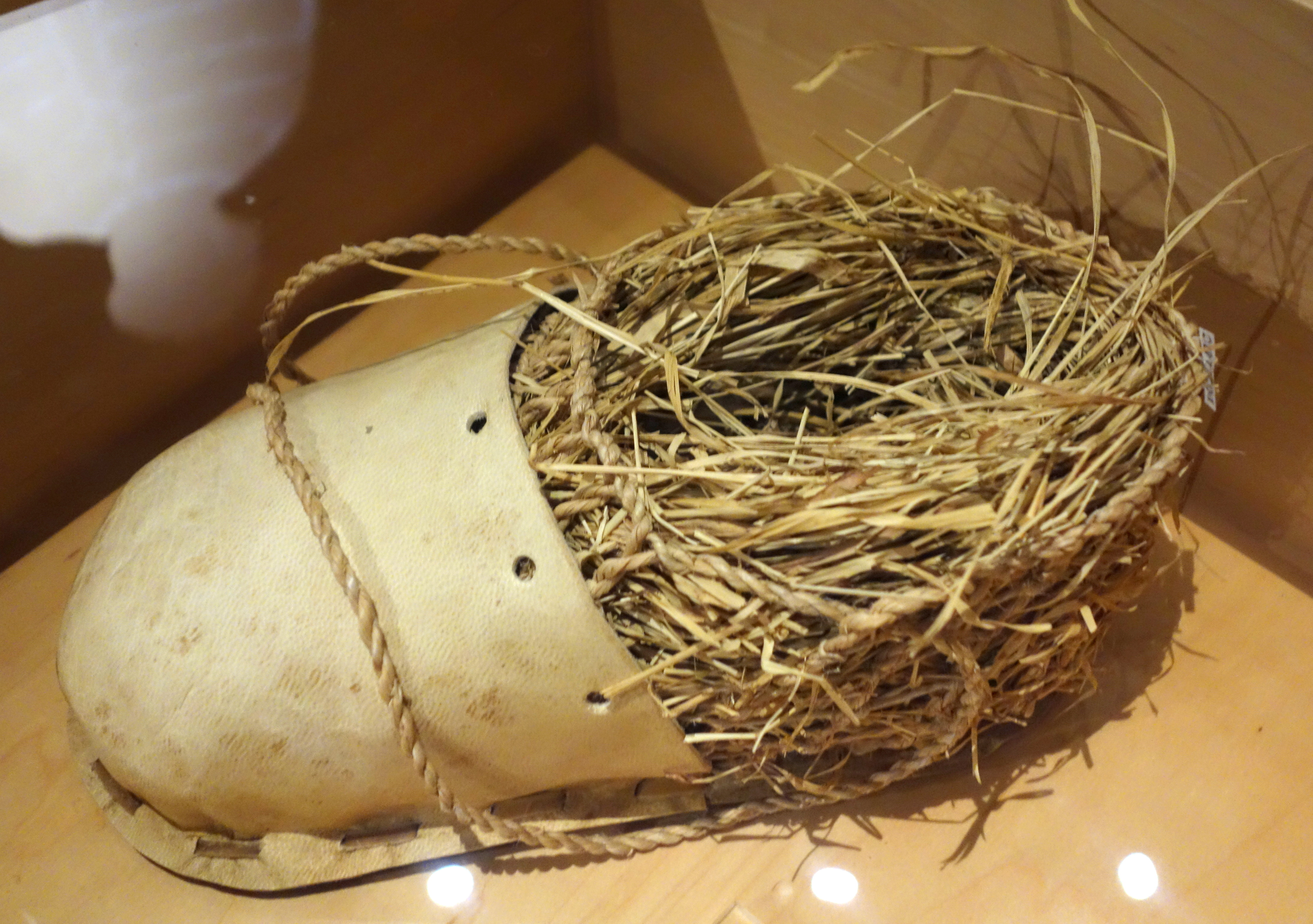 Exhibit in the Bata Shoe Museum, Toronto, Ontario, Canada. This item is old enough so that its design is in the public domain. The museum permitted photography without restriction.